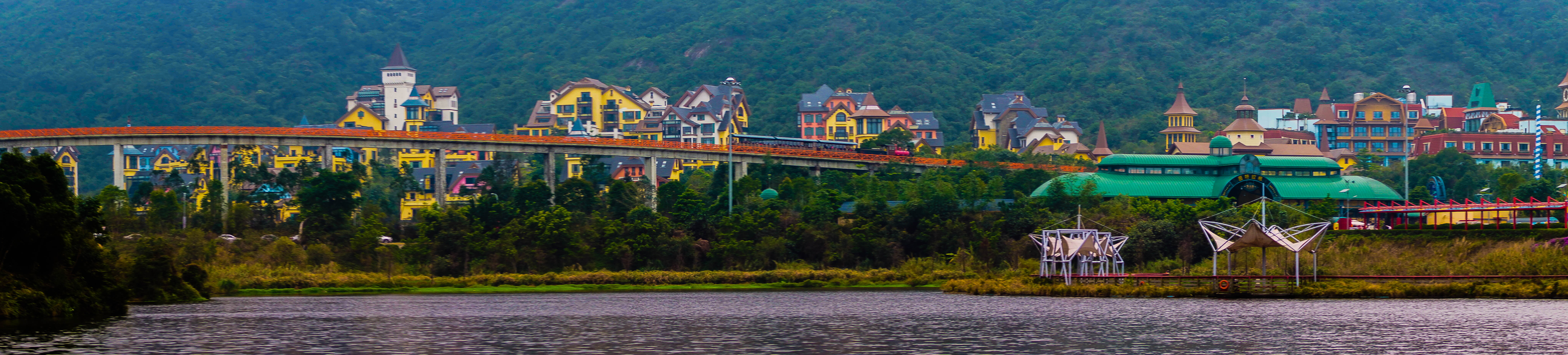 Bridge and lake in OCT East